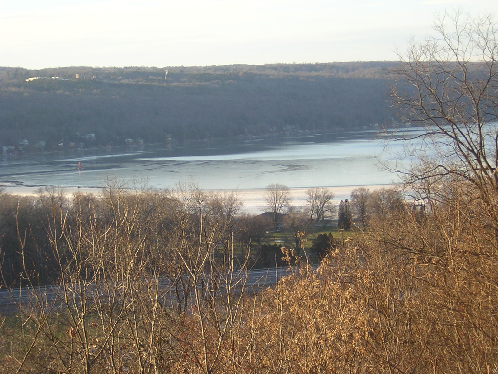 Template:Db-i8 Picture of southern end of Cayuga Lake. Taken by Opus33, from Sunset Park in Cayuga Heights, New York, December 2004. The image is not copyrighted, and it is hereby released by Opus33 into the public domain. The following is the official Wikipedia tag for this file